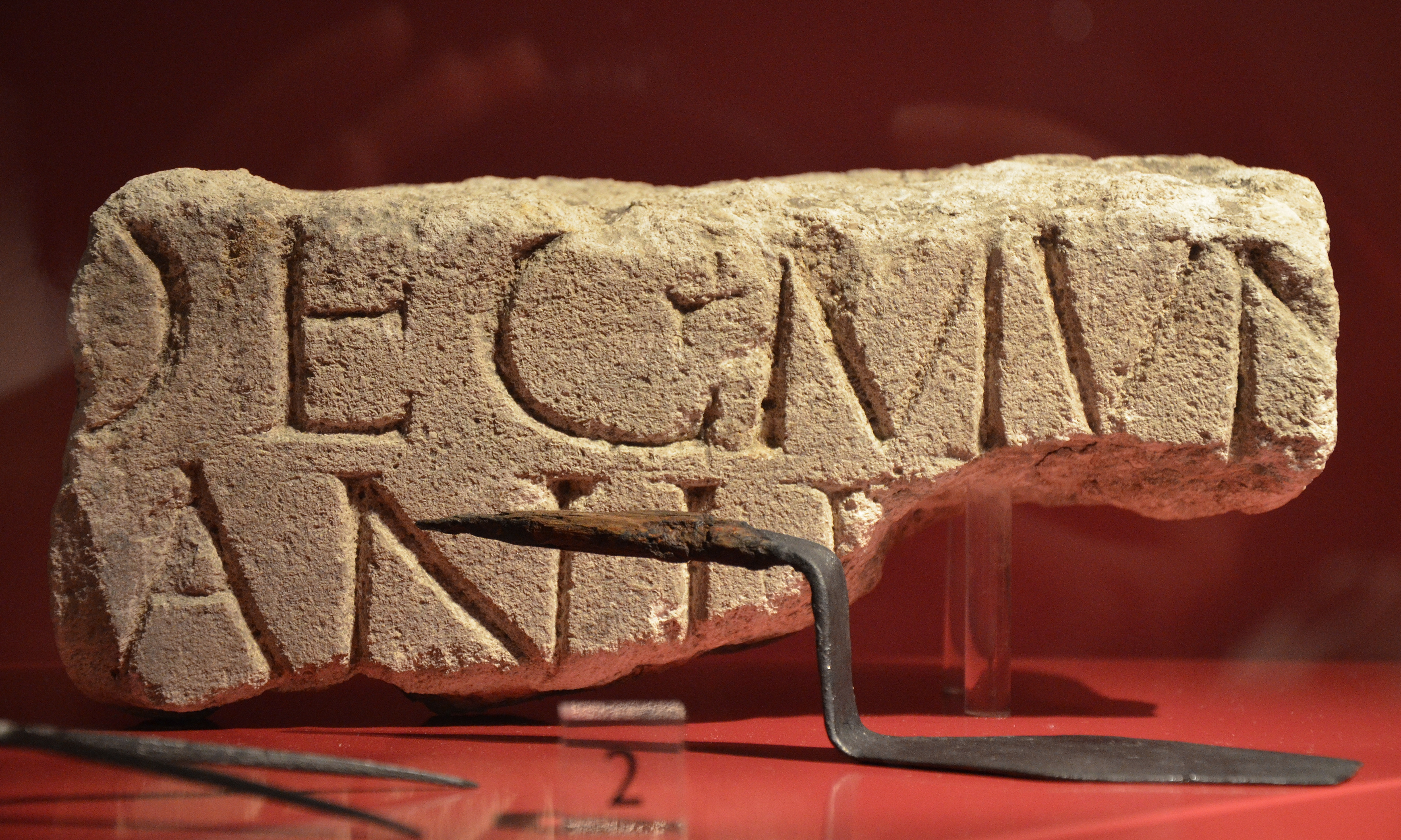 Stone inscription fragment found on the site of Forum Hadriani (Municipium Aelium Cananefatium) mentioning a Decurion DEC[RIO] of the city MVN[ICIPI], Rijksmuseum van Oudheden, Leiden